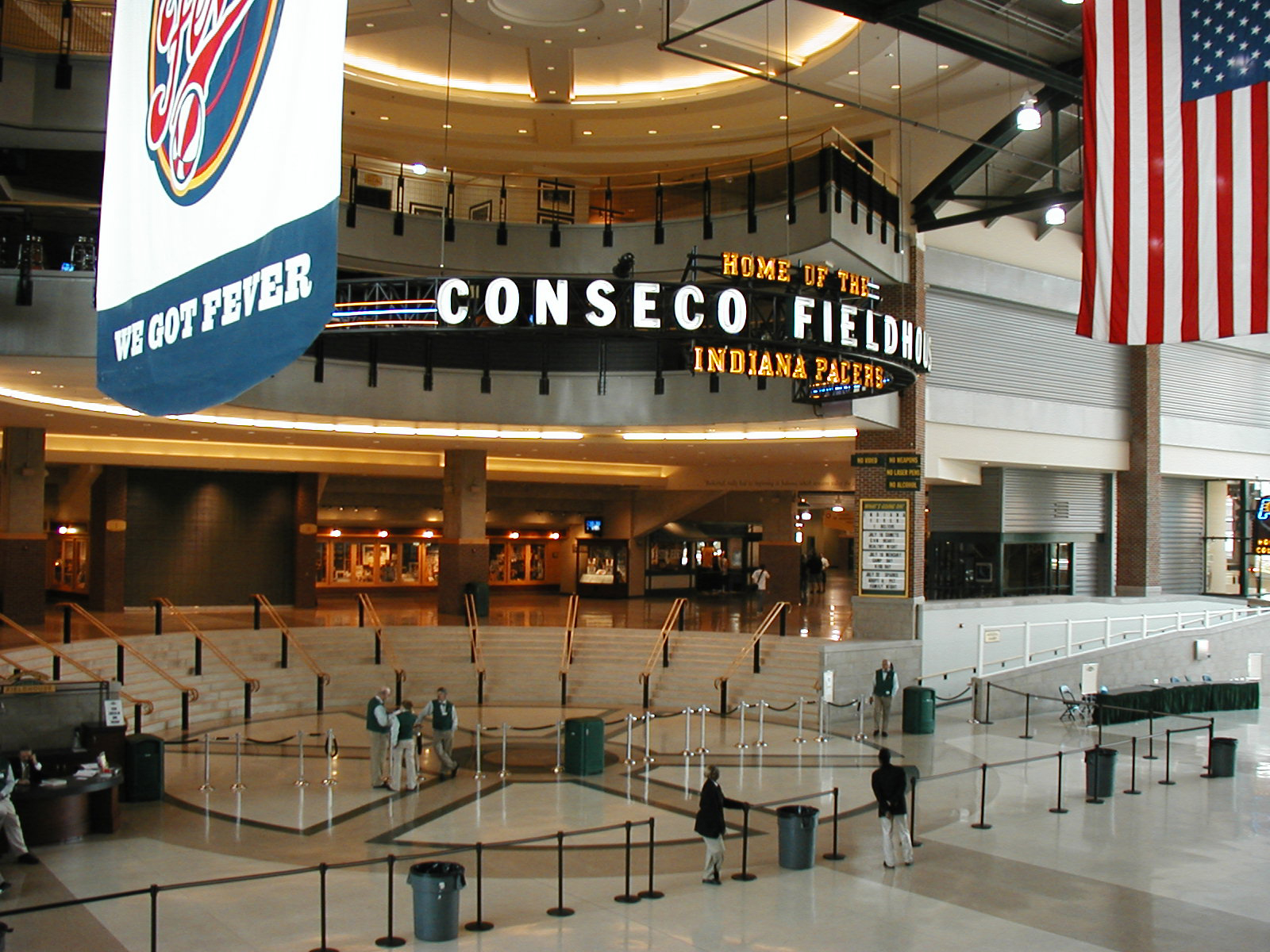 Lobby of Conseco Fieldhouse in Indianapolis. Photo taken 8 July 2006.